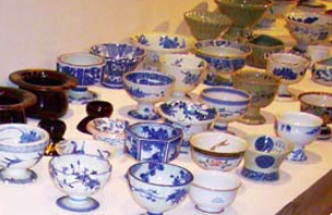 Choko